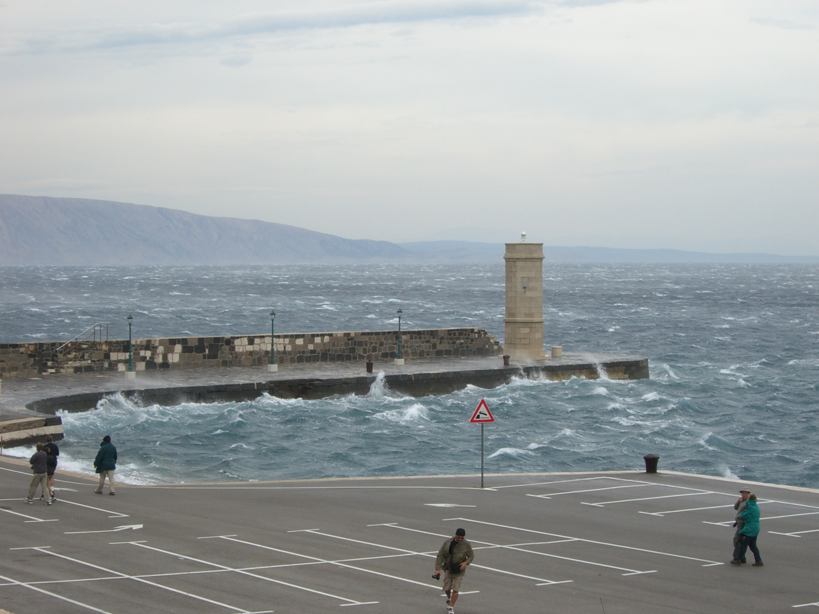 Sea in Senj.